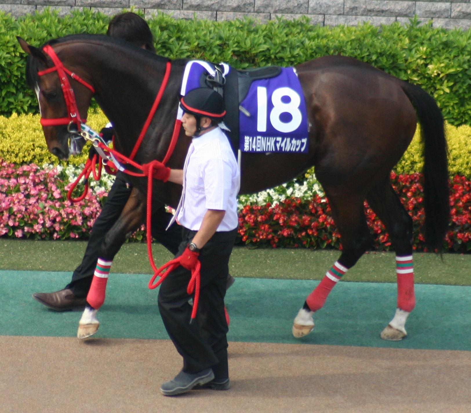 Fifth Petal(Horse)